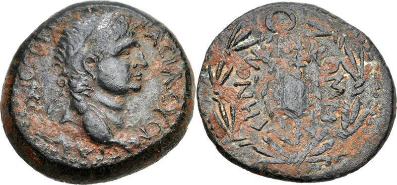 KINGS of COMMAGENE. Antiochos IV Epiphanes. AD 38-72. Æ (27mm, 13.05 g, 12h). Diademed head right / Scorpion within wreath. AC 199; RPC I 3856. Good VF, black patina, light earthen encrustation. From the R.A. Collection. Ex Araratian Collection (Classical Numismatic Group 36, 5 December 1995), lot 650A.